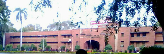 The front view of Allahabad Museum.